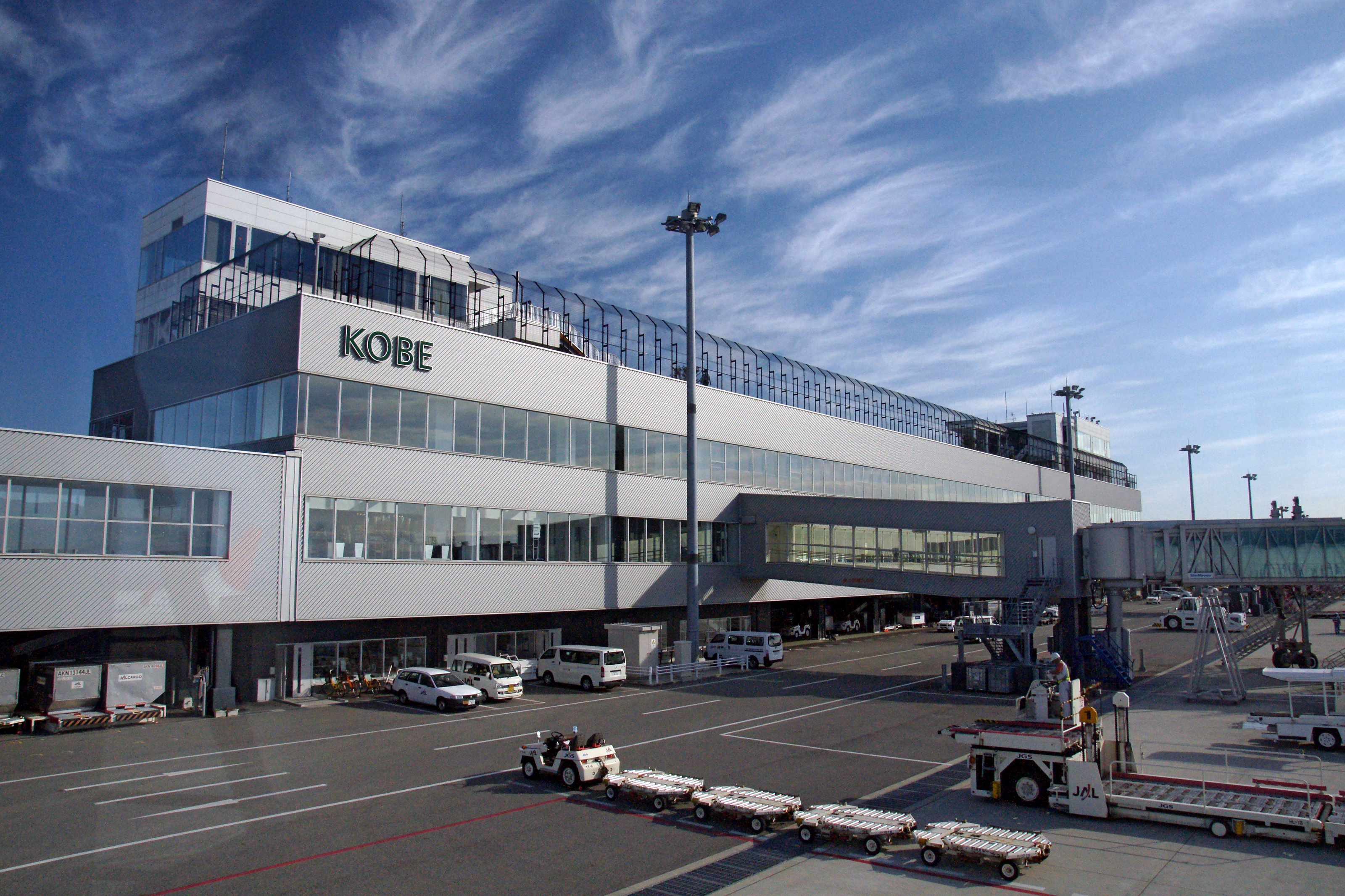 Kobe Airport in Kobe, Hyogo prefecture, Japan